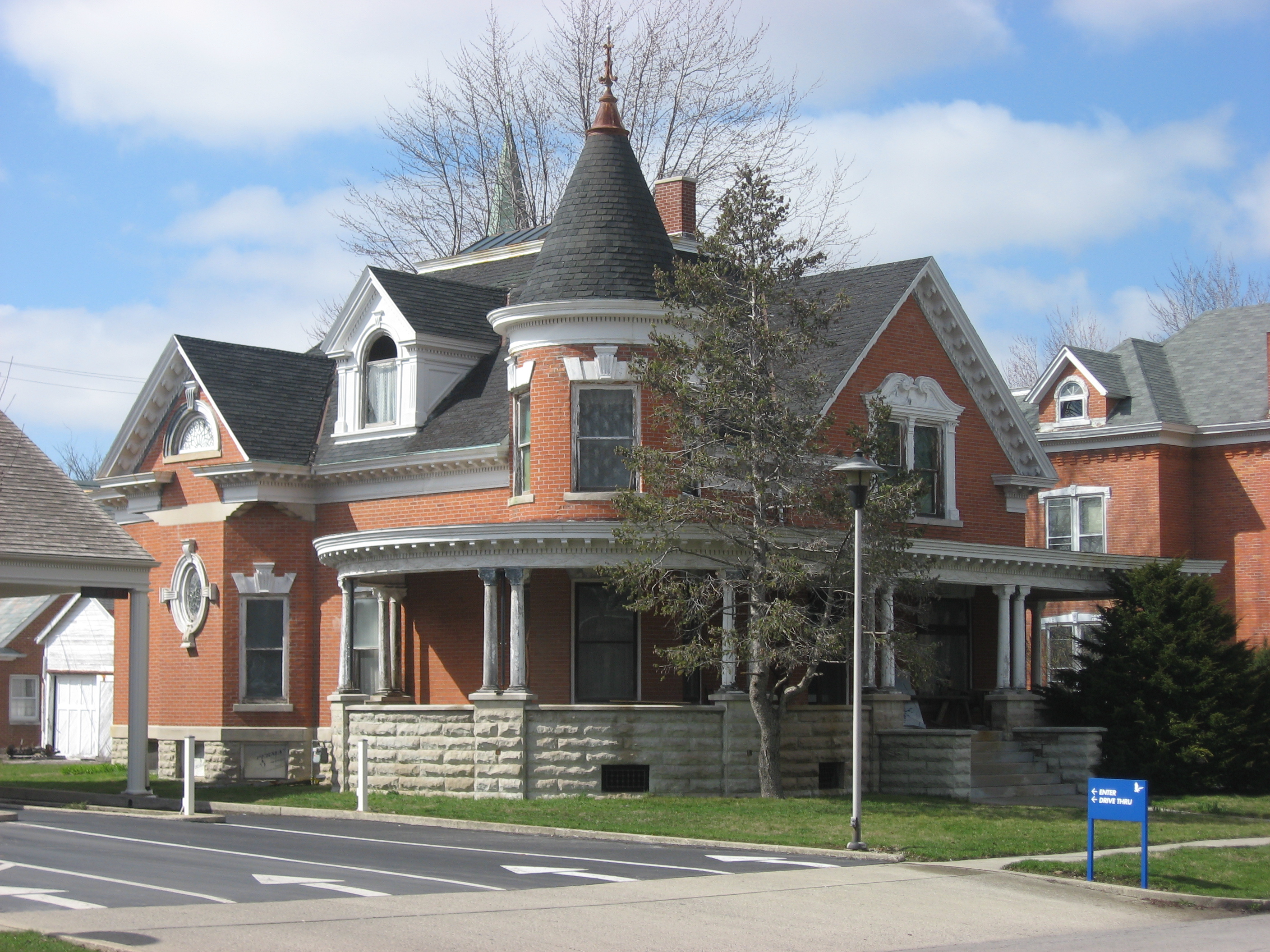 Front and southern side of the Marks-Family House, located at 233 N. Franklin Street in the Allen County side of Delphos, Ohio, United States. Built in 1902, it is listed on the National Register of Historic Places.